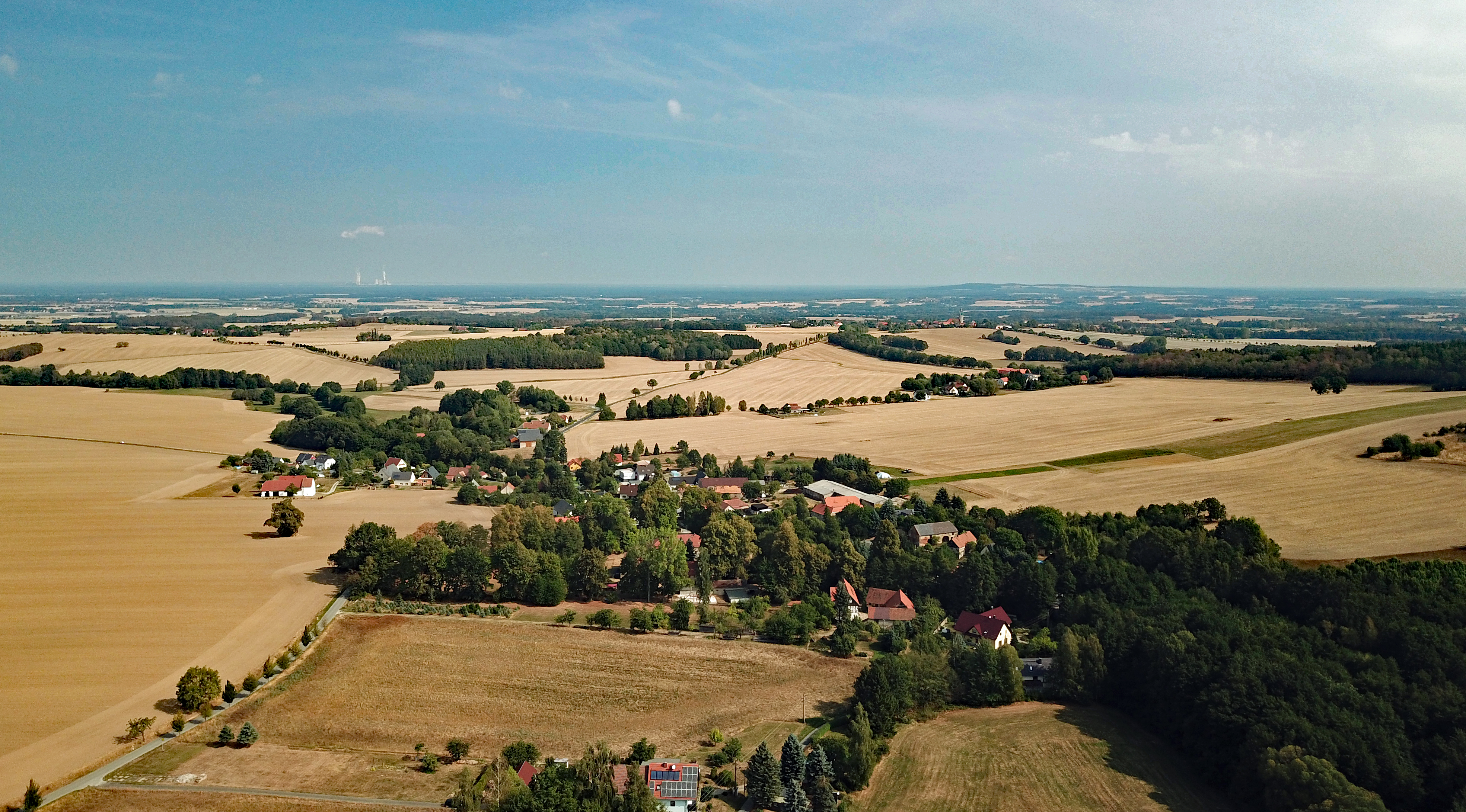 Wuischke (Hochkirch, Saxony, Germany) Hornjoserbsce: Powětrowy wobraz Wuježka pola Bukec.